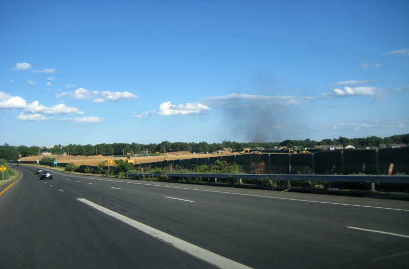 On the South Service Road of the Long Island Expressway (Exit 49S) looking East, Melville, NY. Visible is the former pumpkin farm where Canon USA is constructing their new headquarters. Also visible is smoke from a fire at Two Brothers Scrap Metal in Farmingdale. That occurred on June 8th, 2010.